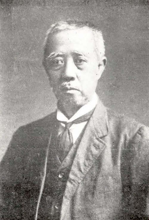 Ang I-lam